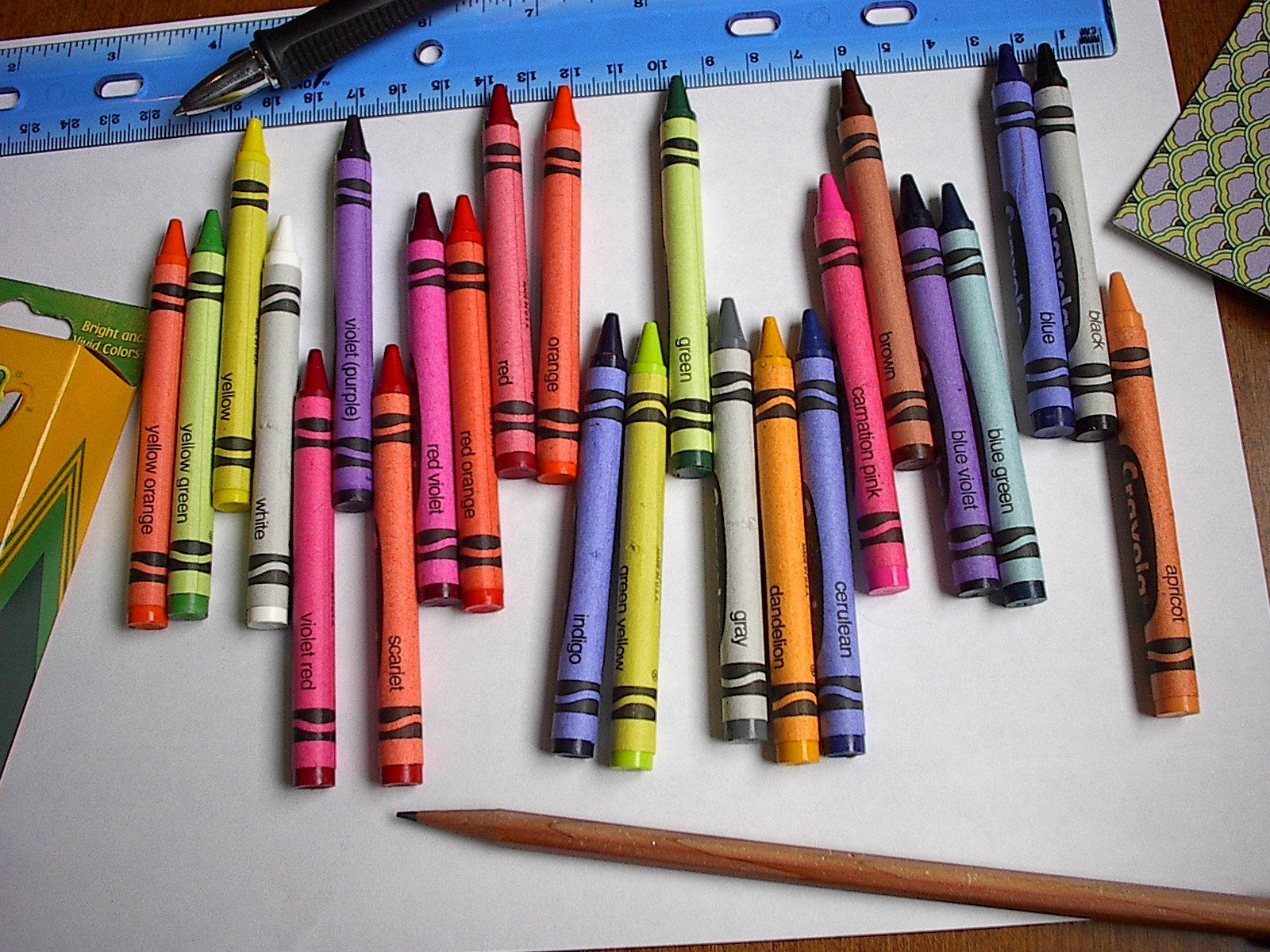 Crayola crayons. The crayons are in alphabetical order. The eight crayons by the ruler form the 8 pack: red, orange, yellow, green, blue, violet (purple), black, and brown. The basic eight plus the next eight crayons form the 16 pack. The next eight crayons by the pencil complete a 24 pack.